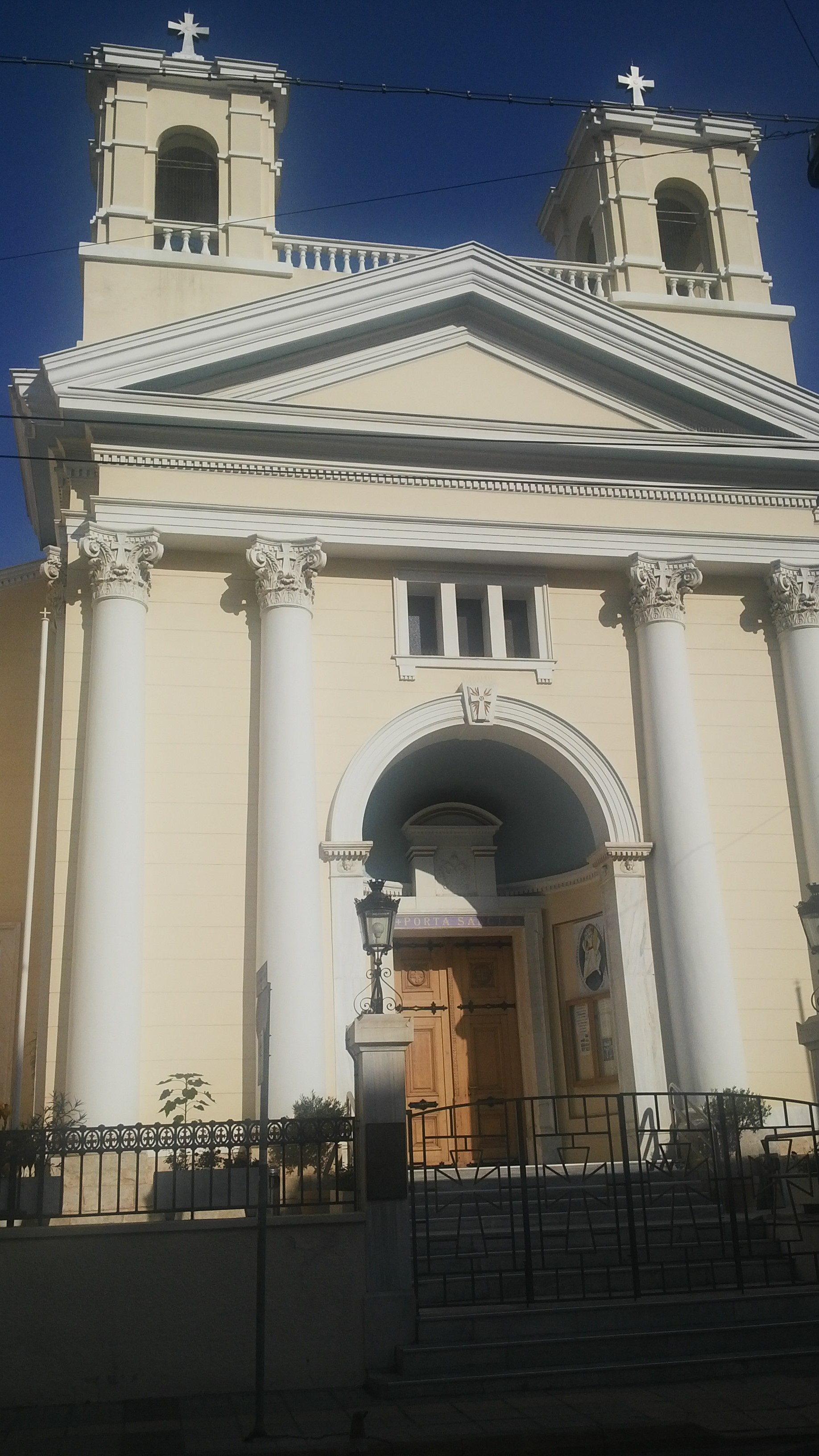 Roman Catholic Church of Saint Paul in Piraeus